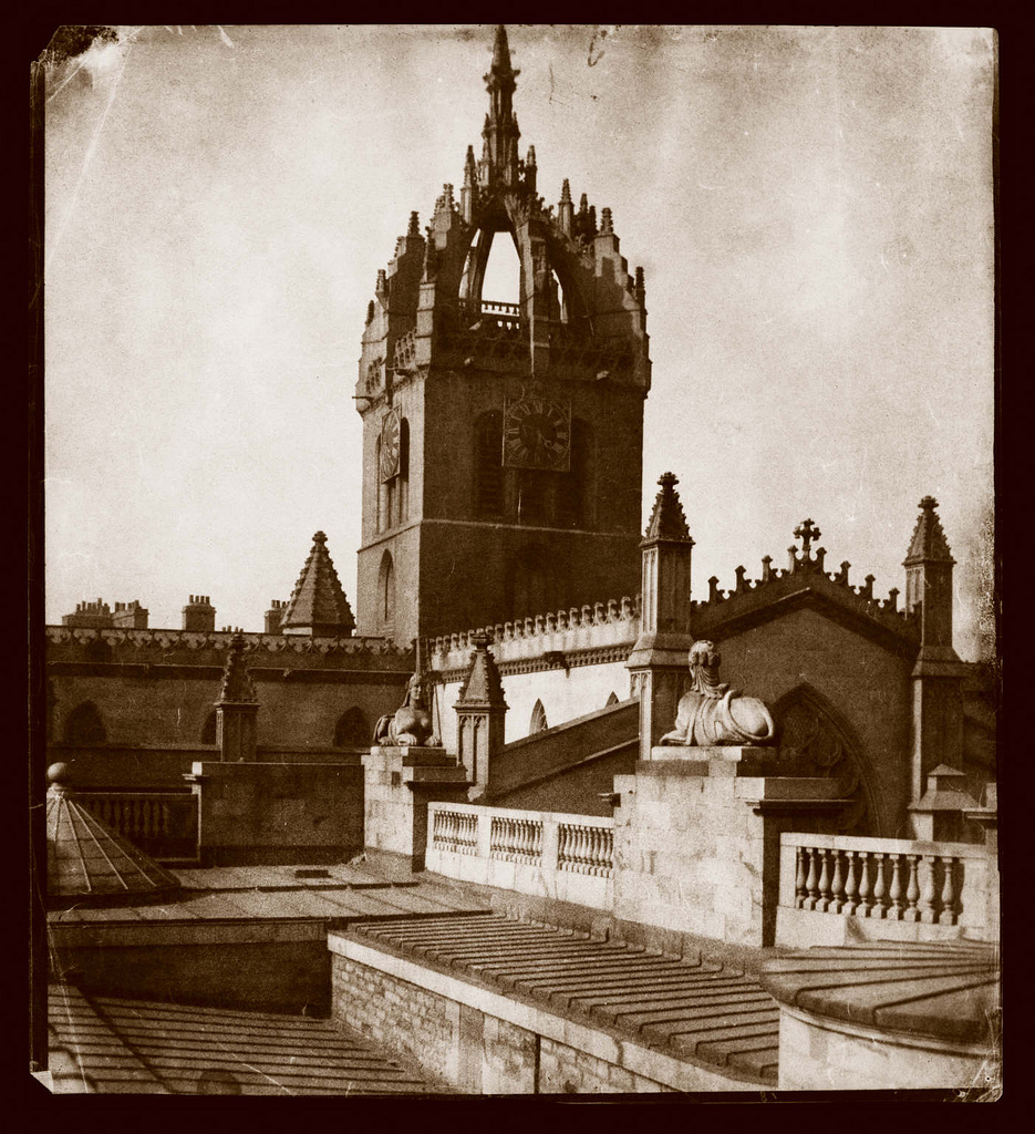 Tower of St Giles from Parliament House, Edinburgh